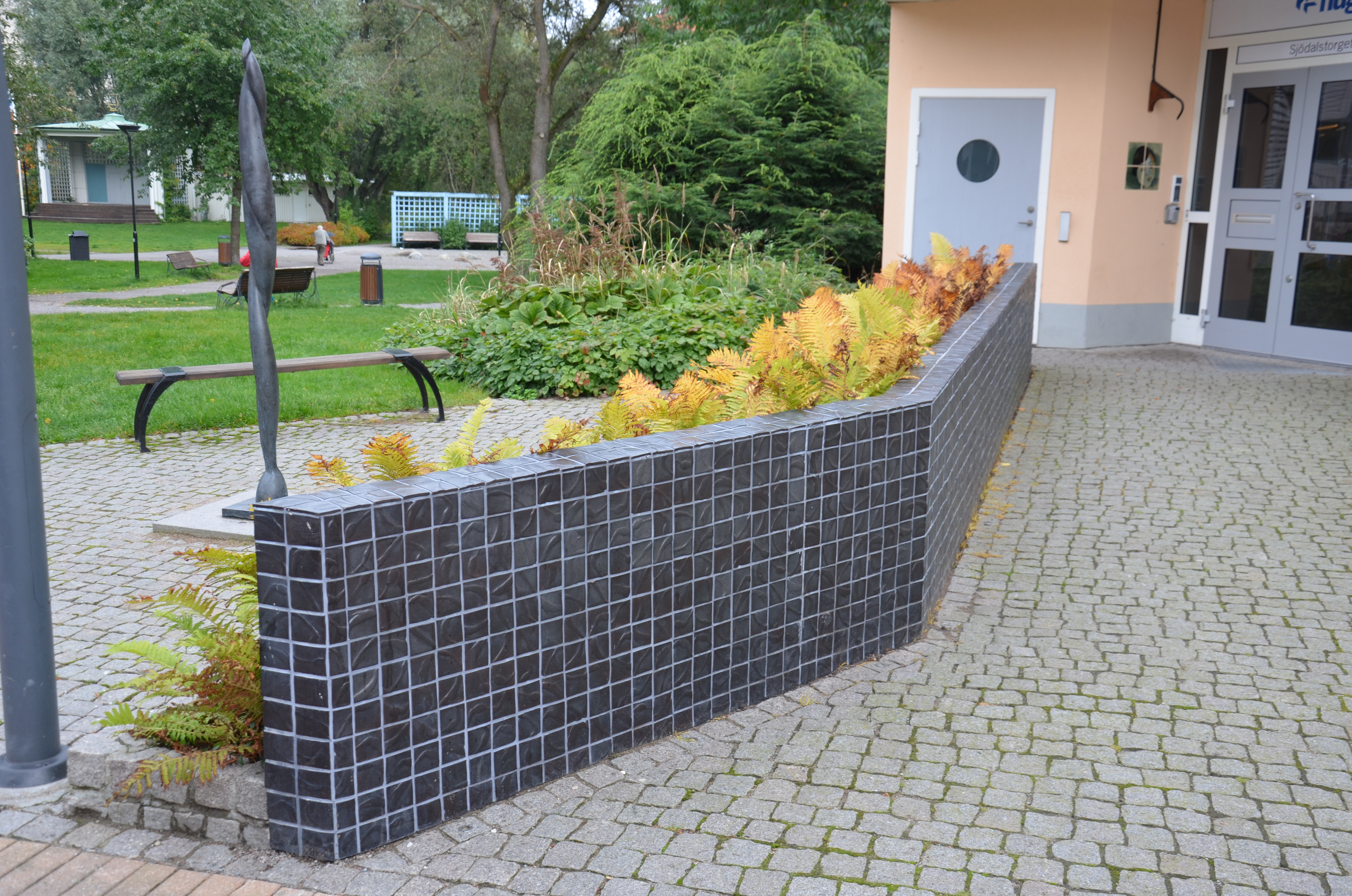 Margon Lindbergs klinkerklädda mur utanför Huges kontor, Sjödalstorget i Huddinge centrum